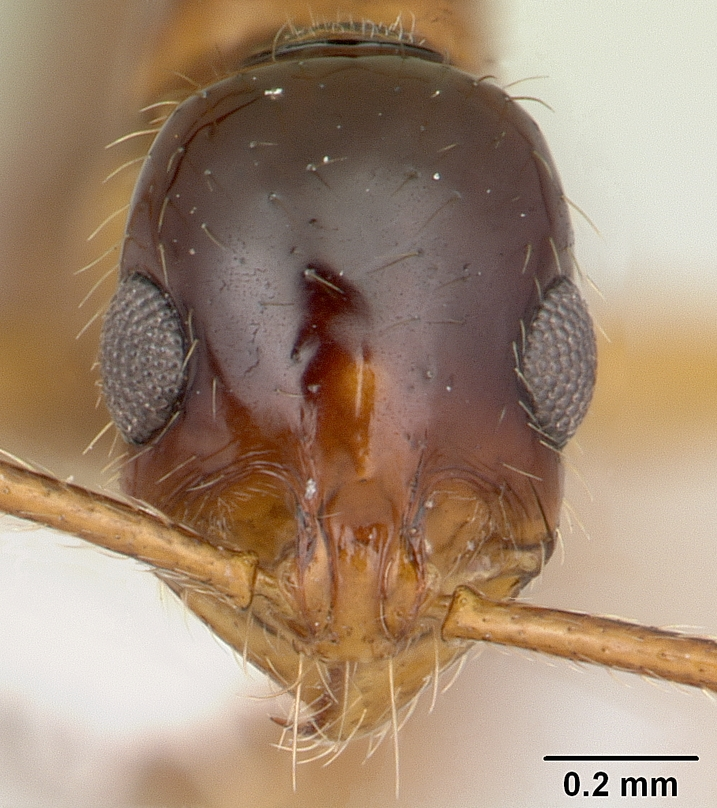 Head view of ant Megalomyrmex silvestrii specimen casent0173976.